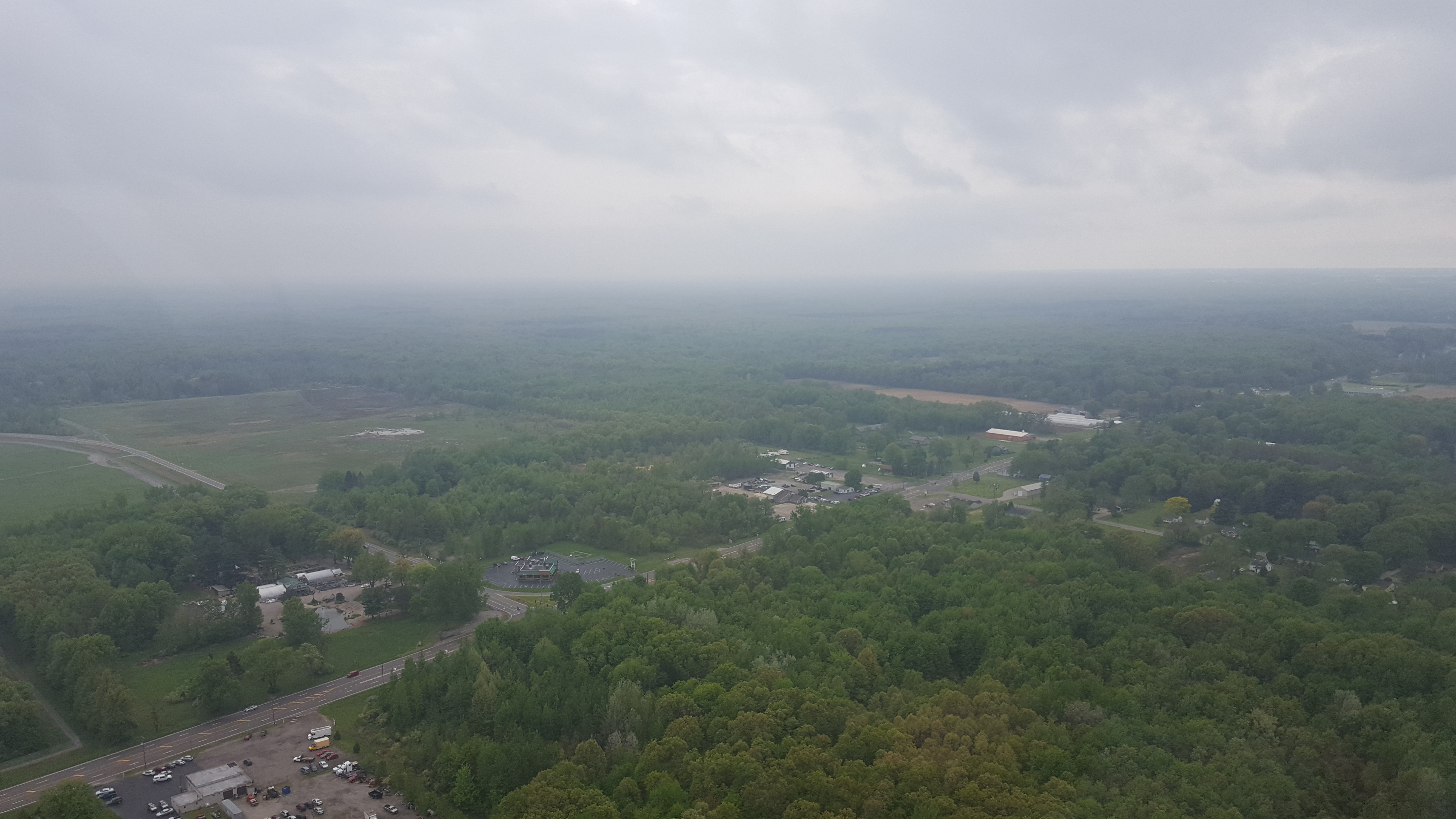 The junction of Ohio state routes 2 and 295, and US 20A at the Toledo Express Airport.